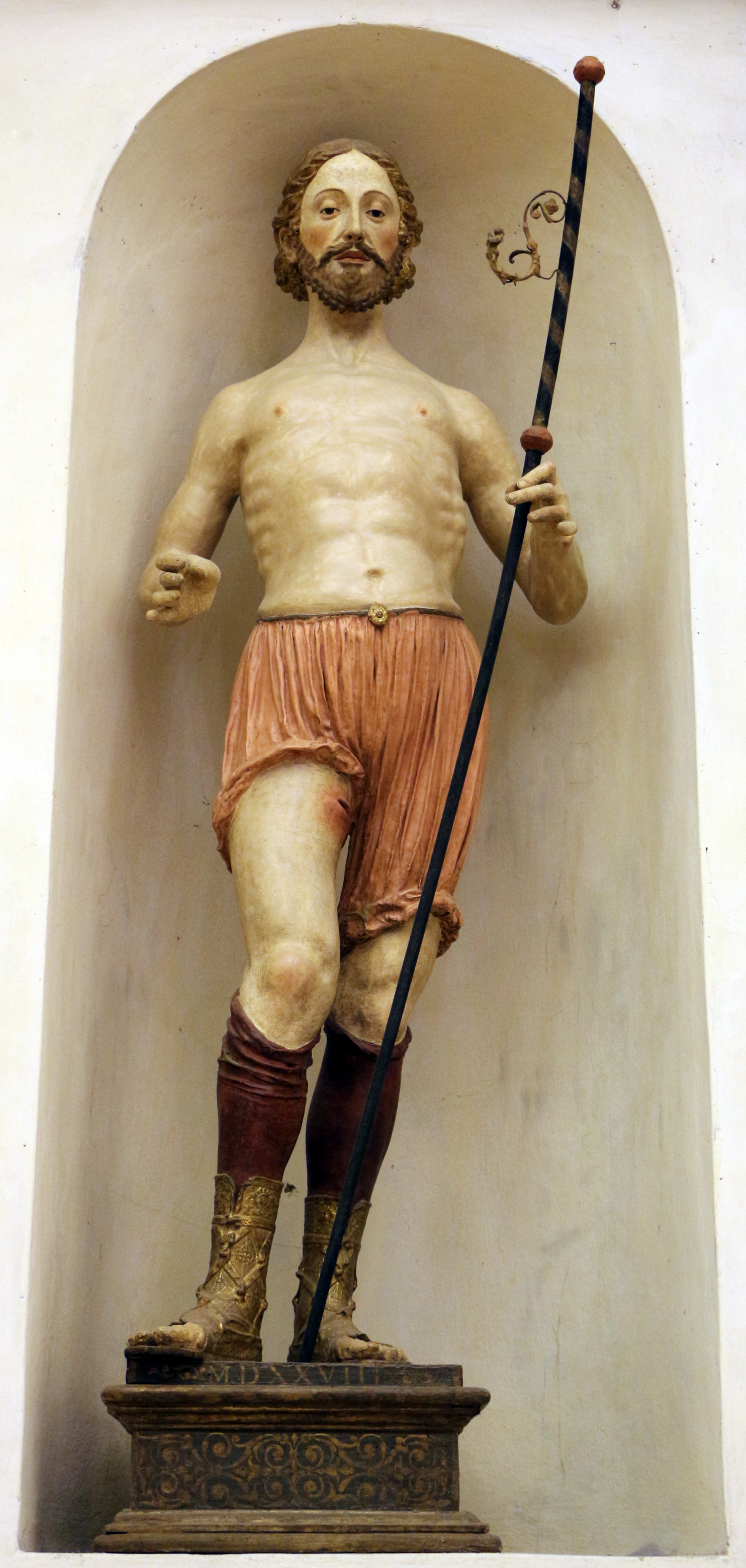 Santa Croce (Umbertide)